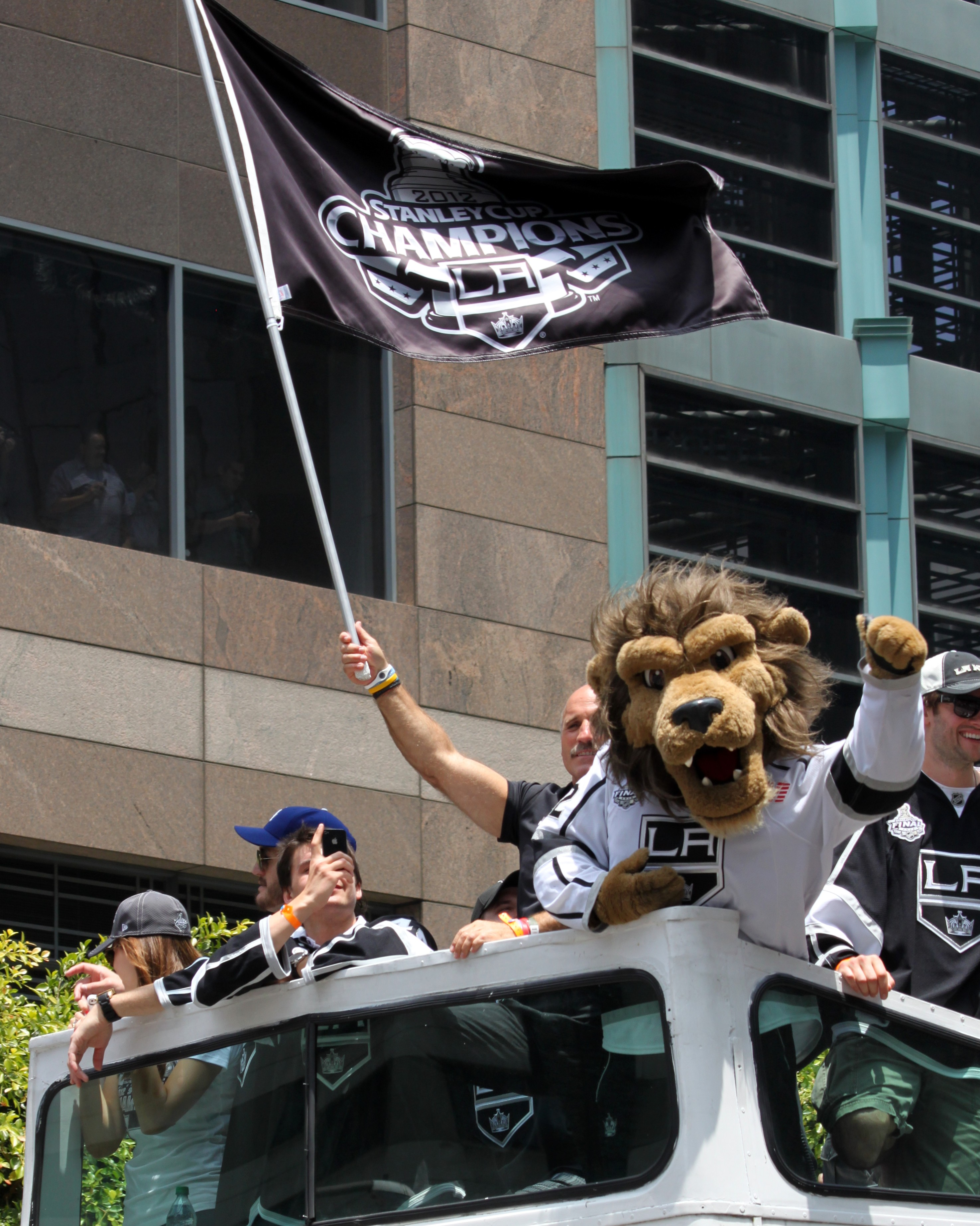 NHL Los Angeles Kings Victory Parade, Down Town Los Angeles, California